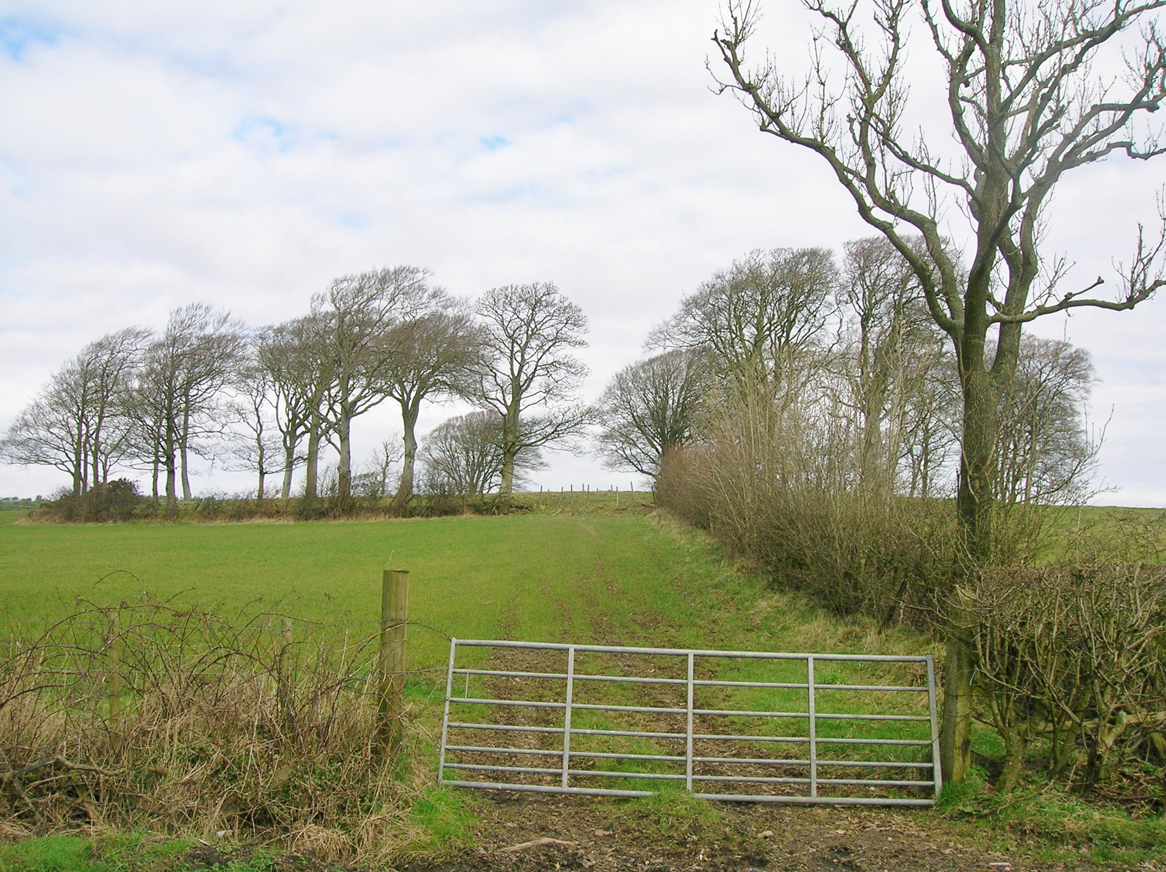 Ashgrove Mount, Kilwinning, North Ayrshire, Scotland.